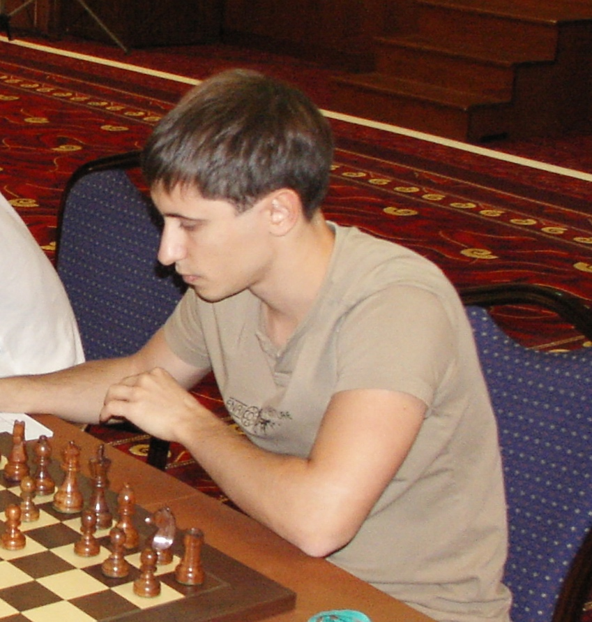 Dmitry Jakovenko (Russia), Heraklion 2007